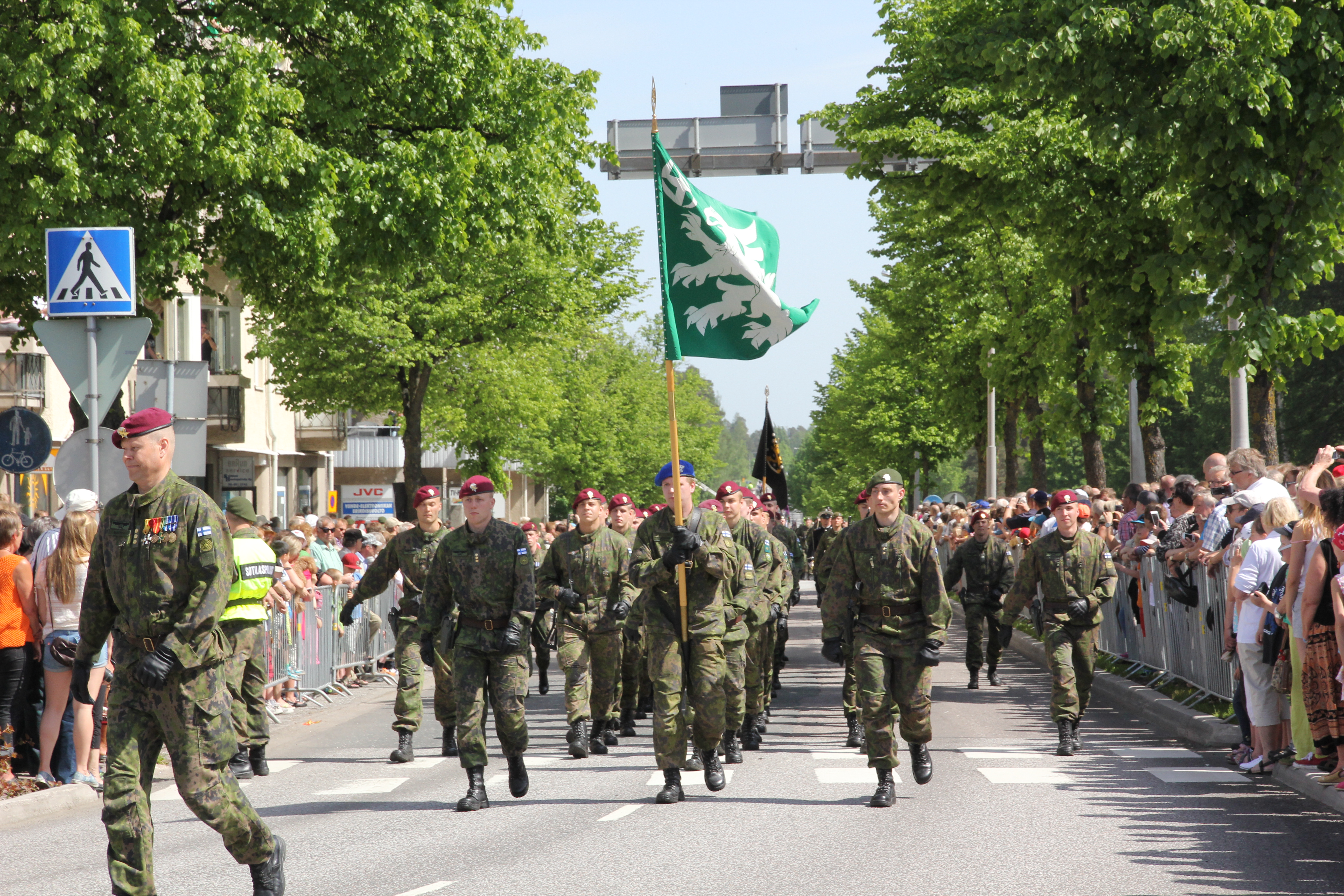 Utti Jaeger Regiment during the Finnish military Flag Day 2014 parade along Valtakatu street in Lappeenranta. Colonel Petri Mattila leading.